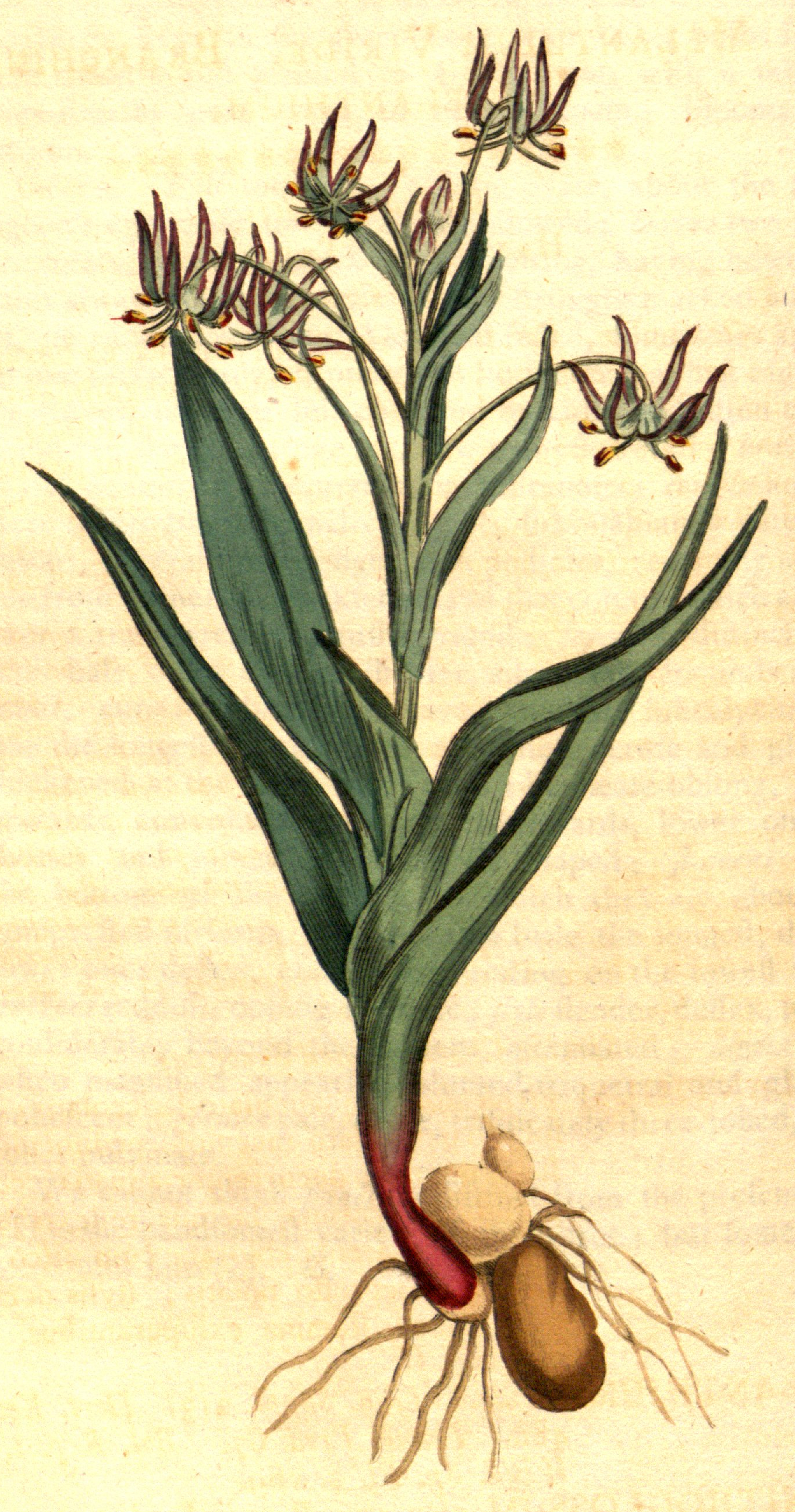 Ornithoglossum viride